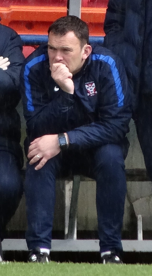 Craig Hinchcliffe during York City's match against Bristol Rovers at Bootham Crescent, York on 30 April 2016